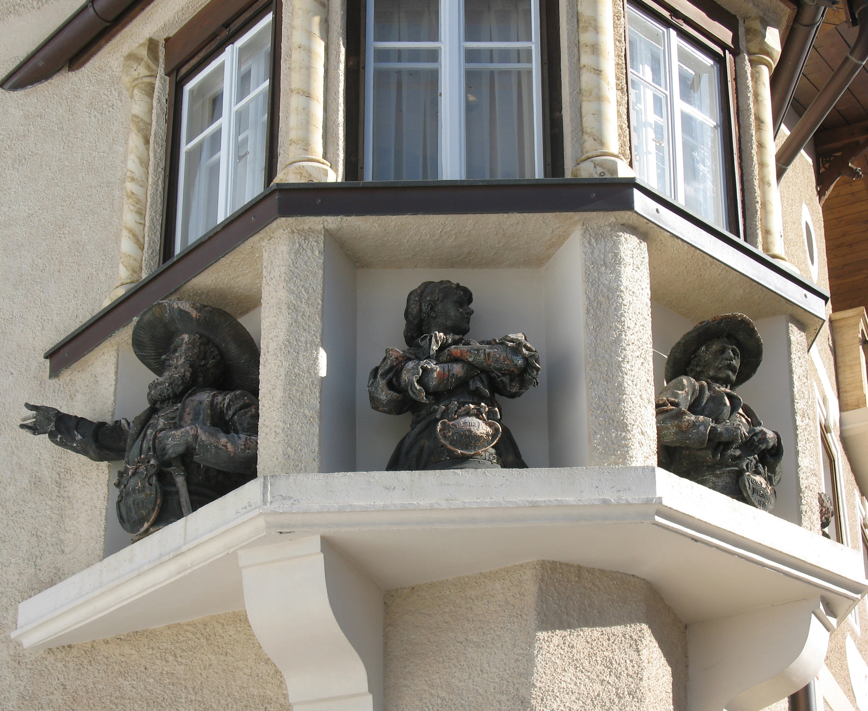 Andreas Hofer, Katharina Lanz, Joseph Speckbacher by the Tyrolean sculptor Josef Mersa ca 1905 in St. Ulrich in Gröden